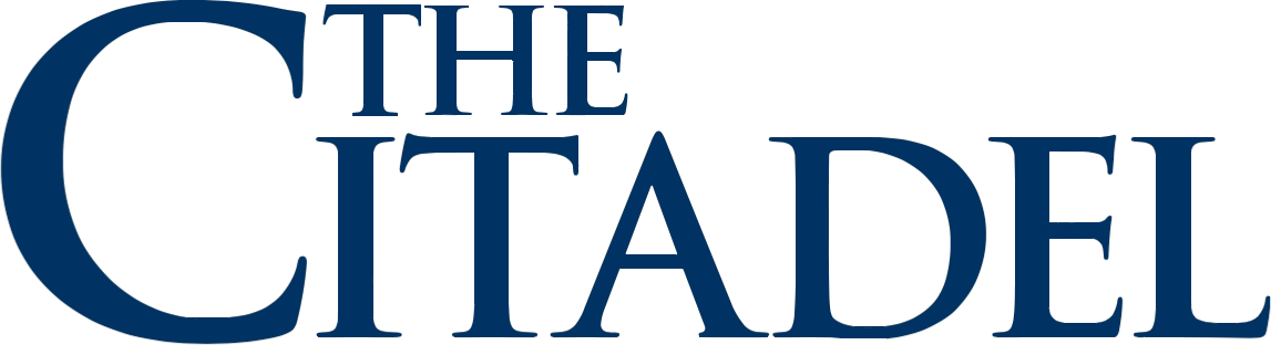 The Citadel wordmark